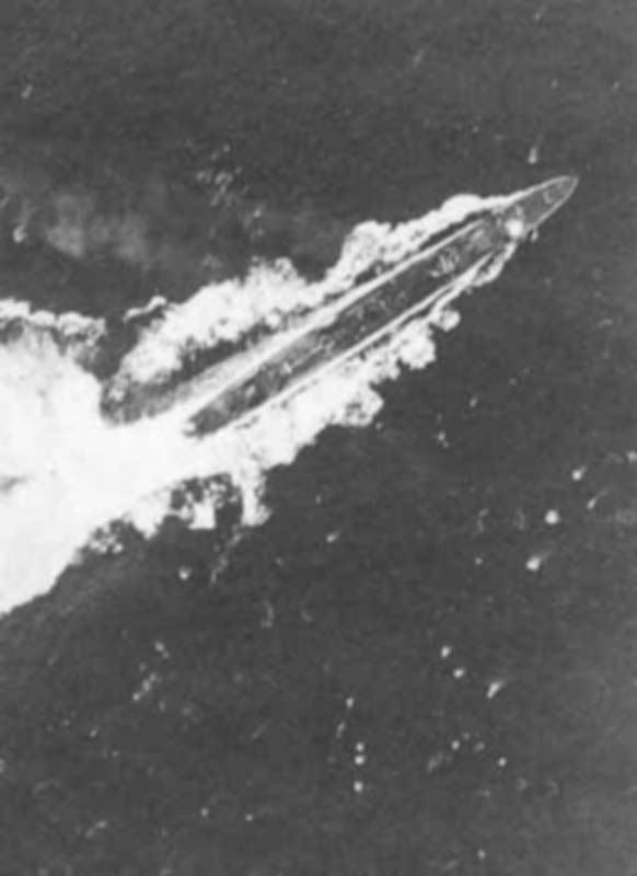 Japanese destroyer Yayoi under attack by United States B-17 and B-25 bombers from the Fifth Air Force near New Guinea on September 11, 1943. Yayoi was sunk in this attack.